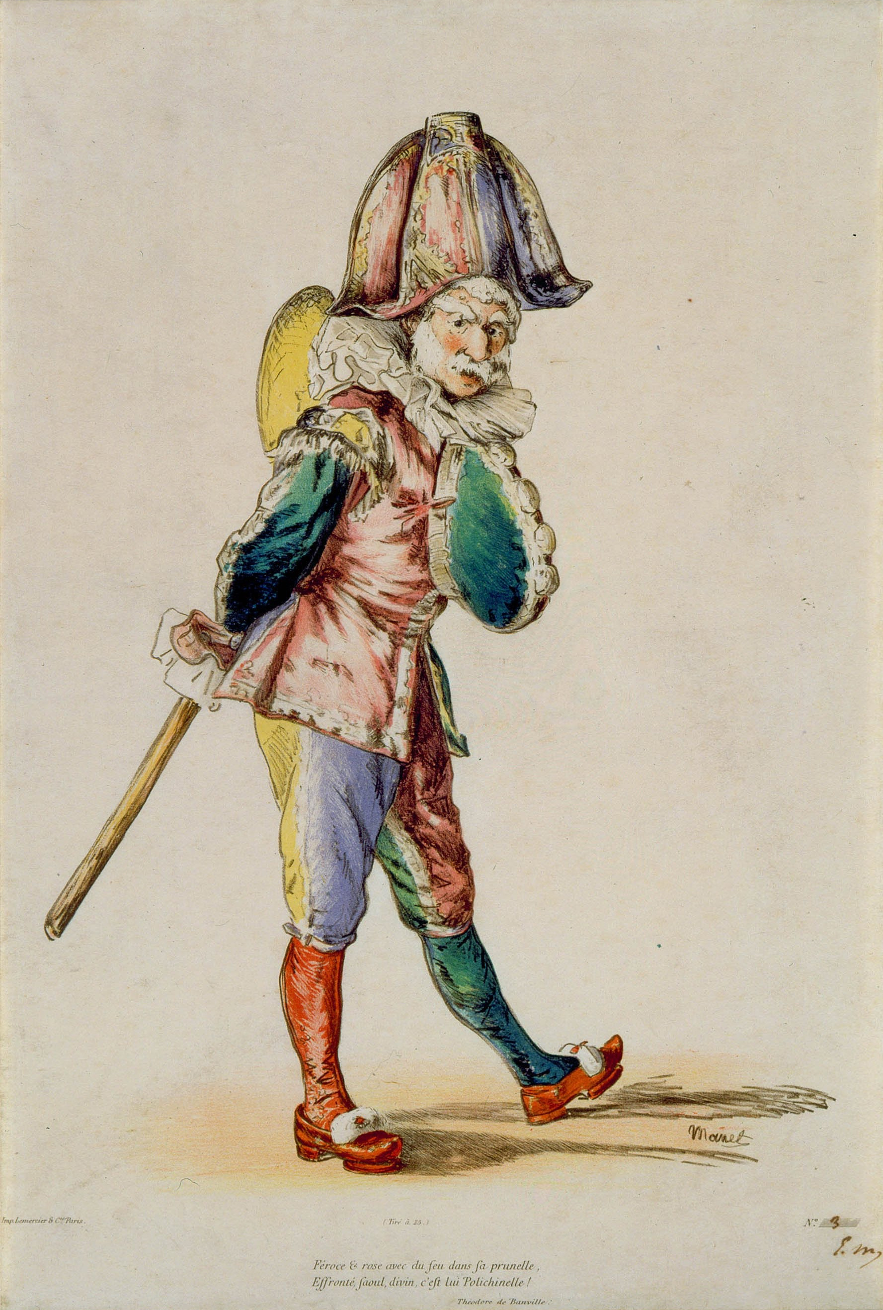 Polichinelle. 1874. Edouard Manet. Color lithograph on Japan paper. Detroit Institute of Arts via Google Cultural Institute